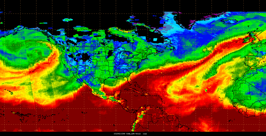 Plume of moist air brought to Western Europe by low pressure Desmond